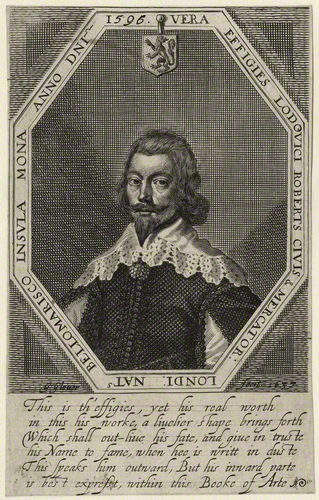 This is the photo of Captain Lewes (Lewis) Roberts (Lodovico Roberts in Latin) that appears on the front of the first edition of his book, the ‘Merchants Mappe of Commerce'